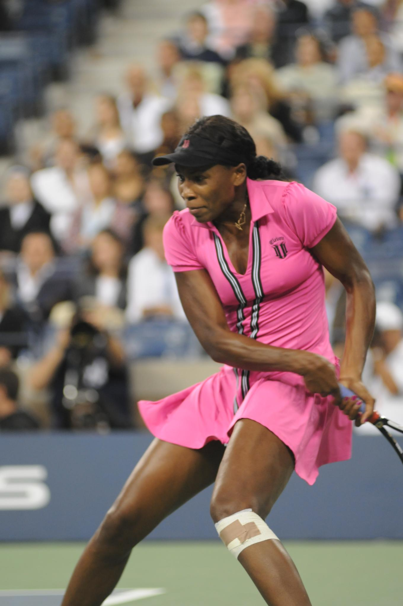 Venus Williams at the 2009 US Open